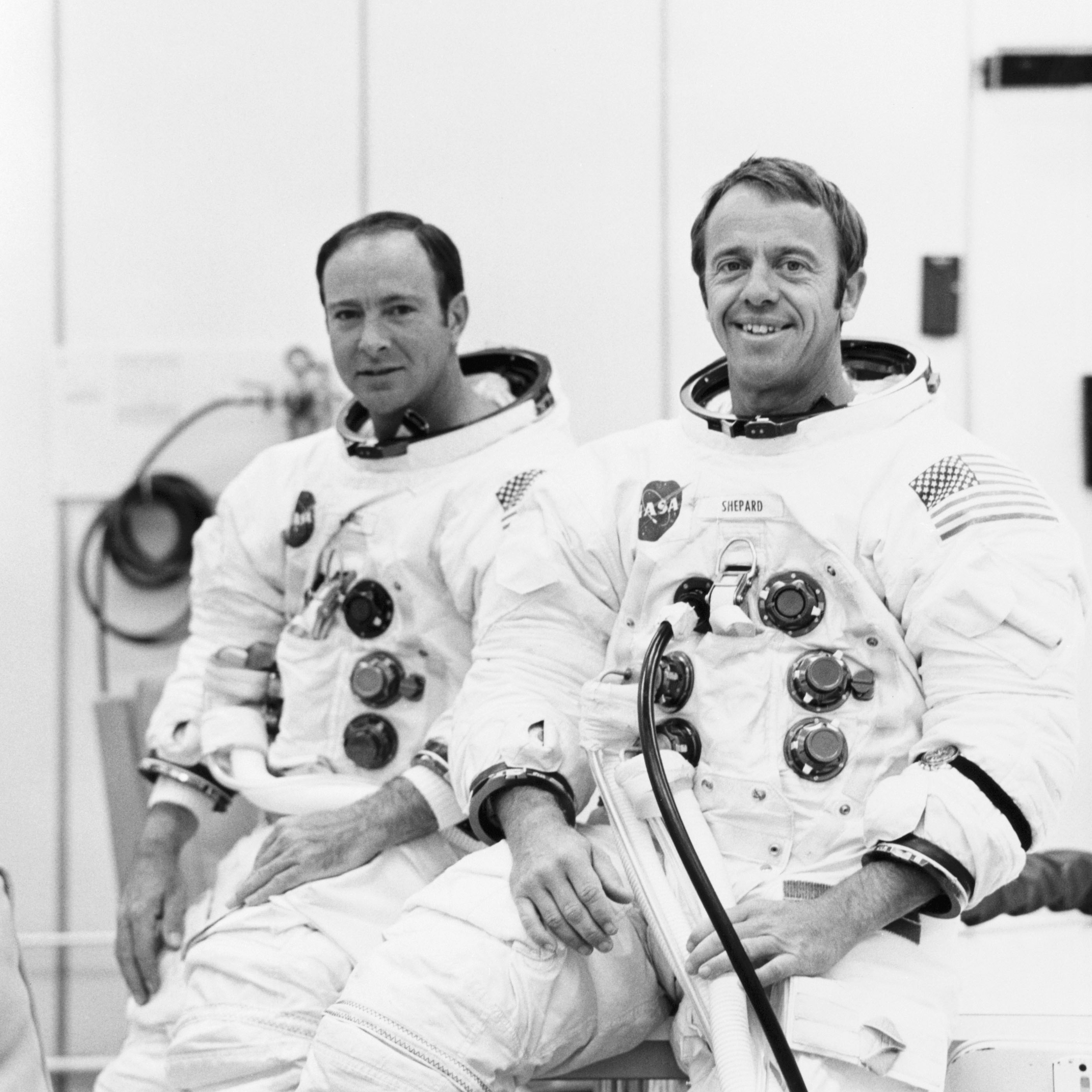 Astronauts Alan B. Shepard Jr. (right), commander, and Edgar D. Mitchell, lunar module pilot, are suited up for a manned altitude run in the Apollo 14 Lunar Module. The manned run in a vacuum chamber of the Manned Spacecraft Operations Building was conducted to validate the LM's communications and guidance and navigation systems.